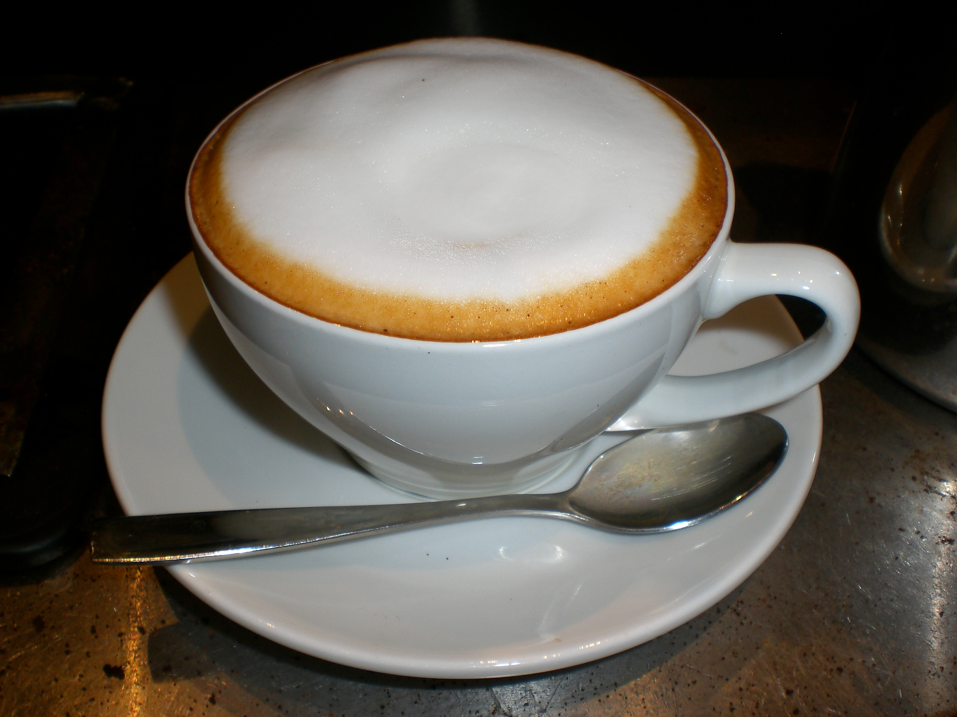 Classic cappuccino